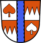 Coat of Arms of Langenbach